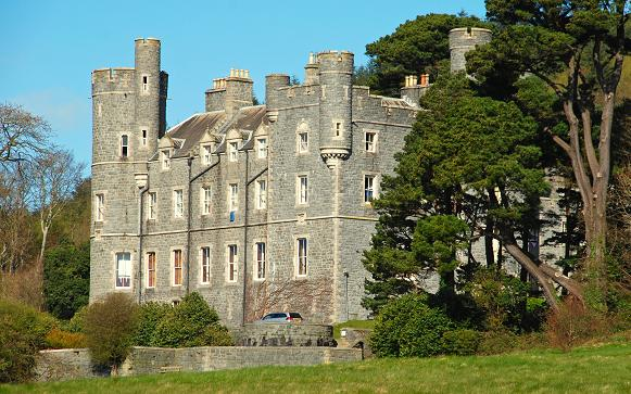 Castlewellan Castle (2). See 550486. The castle seen from the south east.